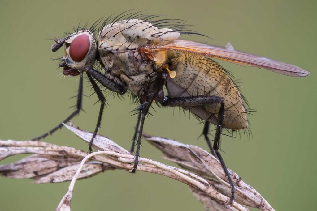 A fly is an insect belonging to the order Diptera.The body of an adult is divided into three sections: head, chest and abdomen.